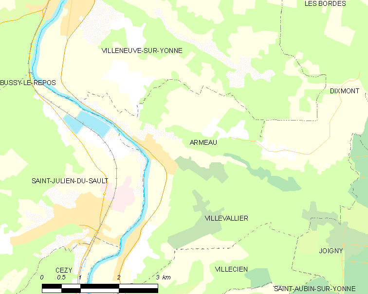 Map of French municipality Armeau